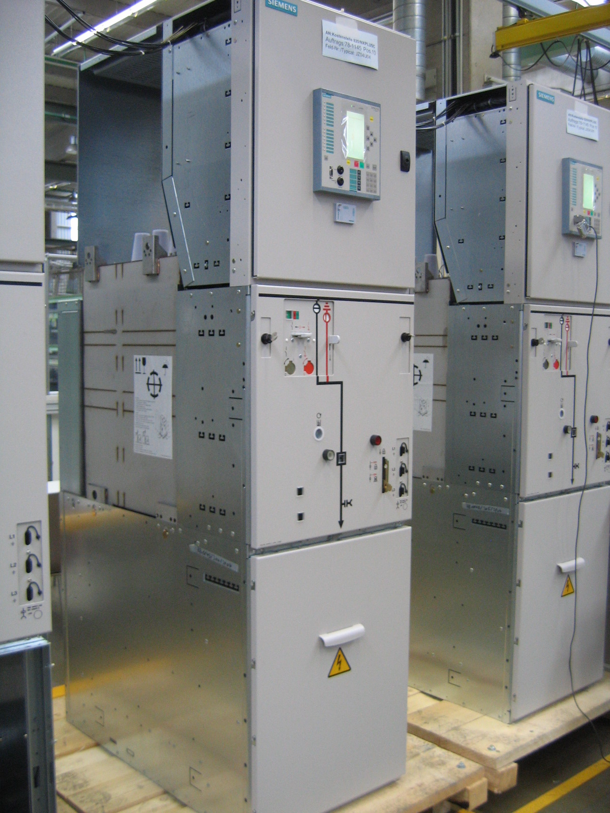 medium voltage panel under test in the production line